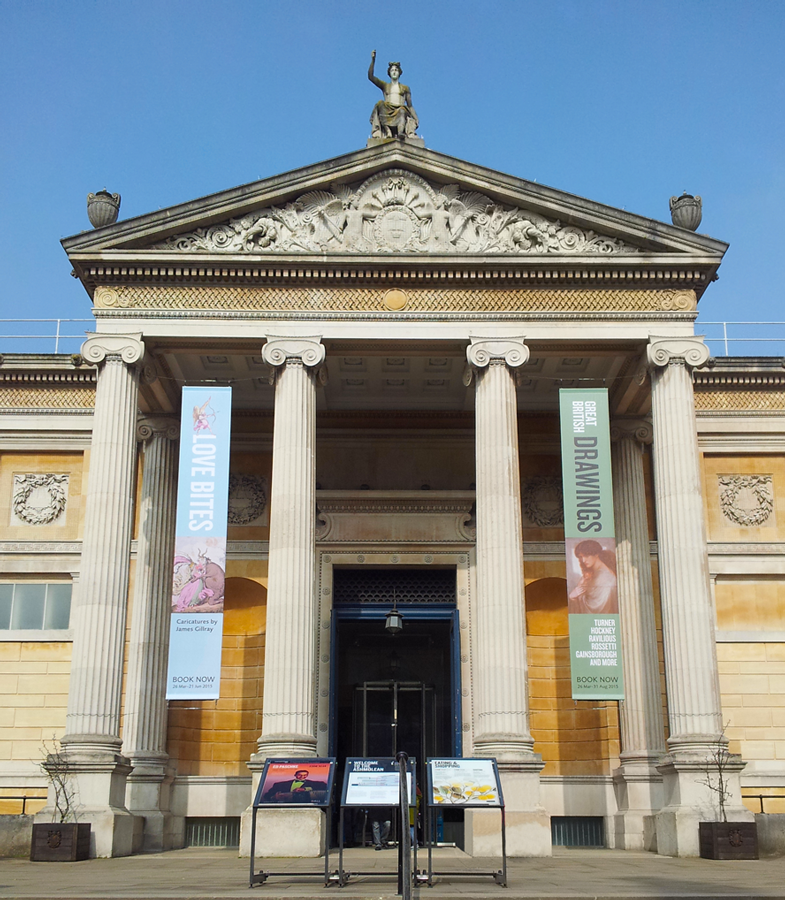 Ashmolean Museum Entrance March 2015